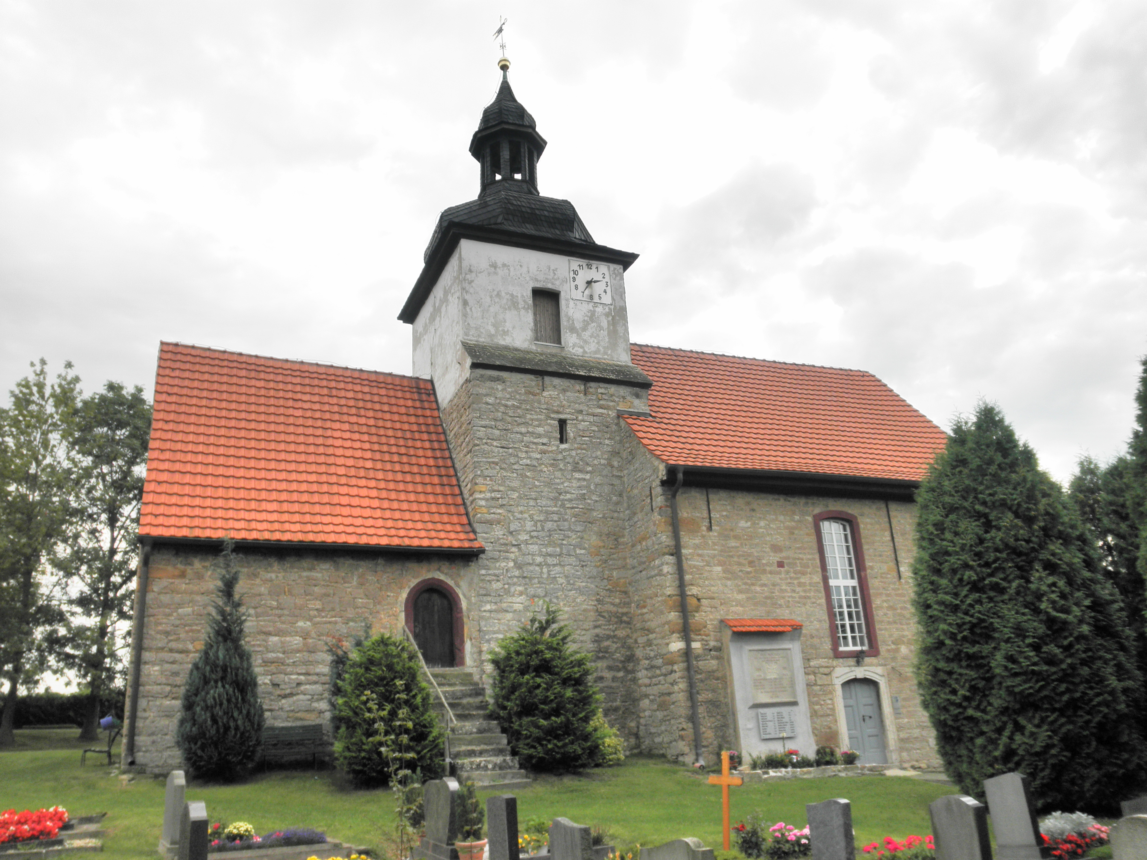 Church in Heichelheim in Thuringia